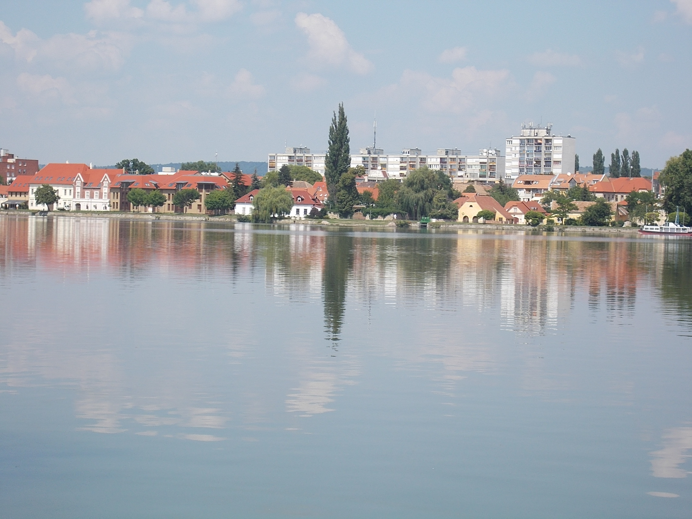 Old Lake northeastern shore. - Tata, Komárom-Esztergom County, Hungary